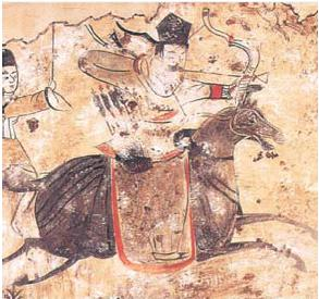 From the Xianbei Tomb Paintings (of Former Yan) excavated in 1982 at the Zhao-yang 袁台子朝陽 area, across the Daling River, Liao-xi. Painting of Murong Xianbei archer.